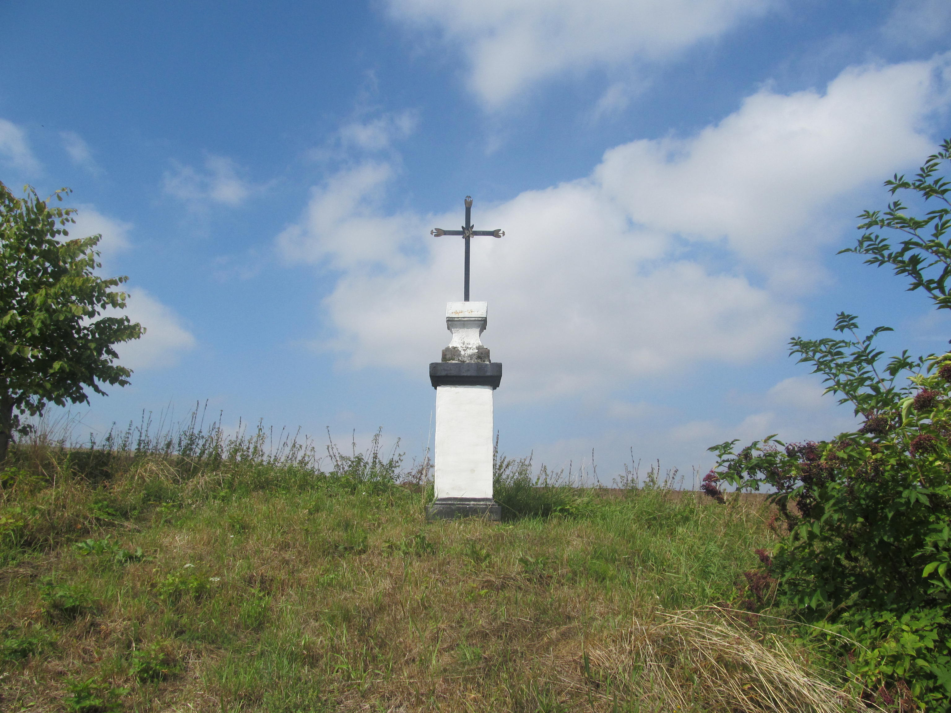 Cross next to Selmice